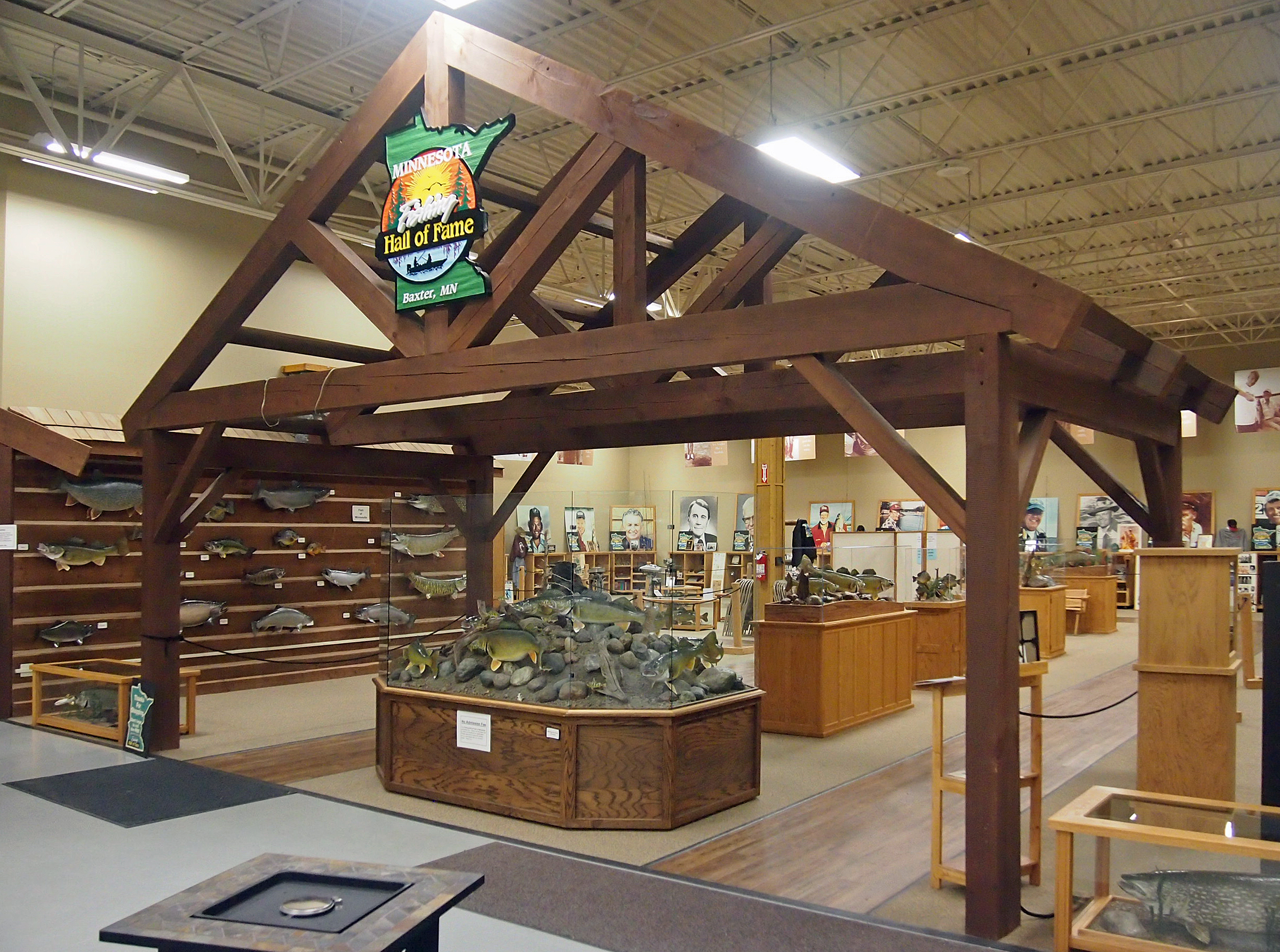 Minnesota Fishing Hall of Fame, operated by a non-profit within a Gander Mountain store, 14275 Edgewood Dr N, Baxter, Minnesota, USA.